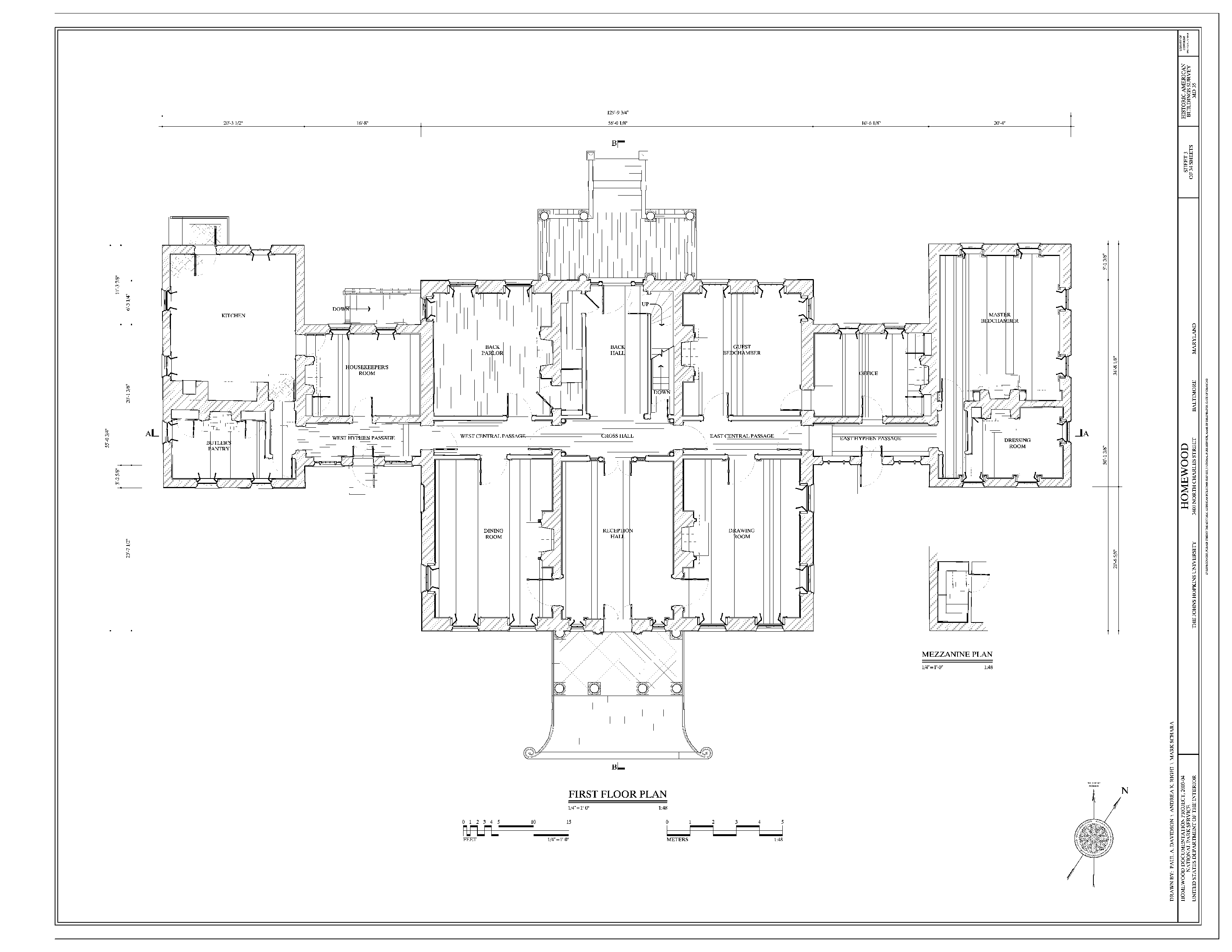 Plan of the first floor of Homewood, Johns Hopkins University, Baltimore, Maryland